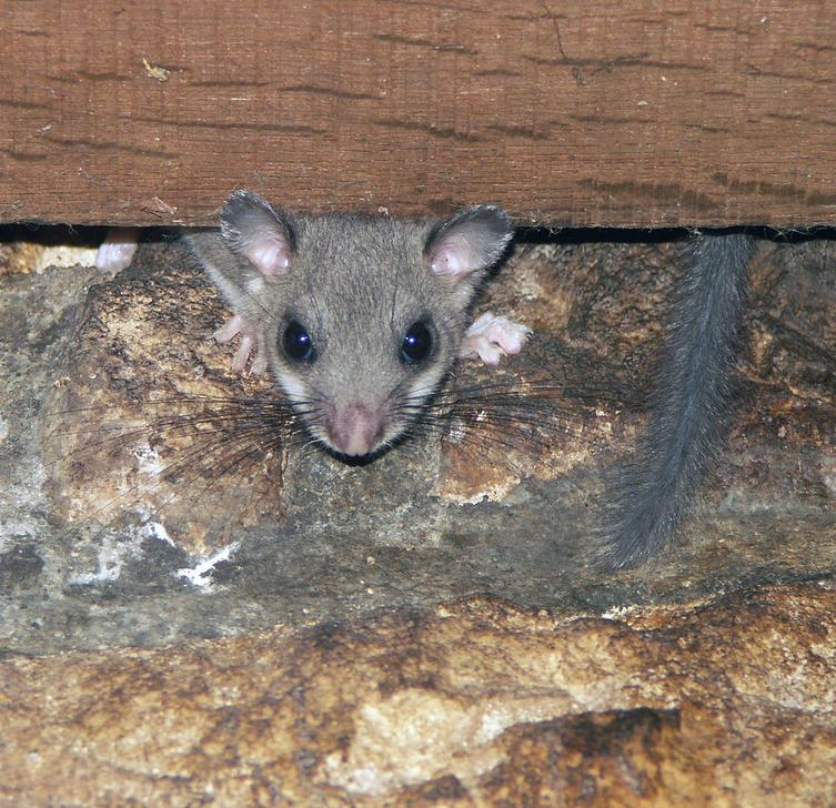 Dormouse in a house